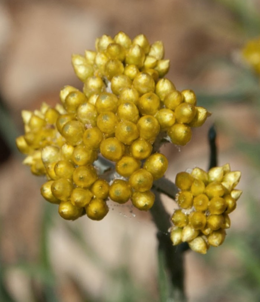 Helichrysum hyblaeum